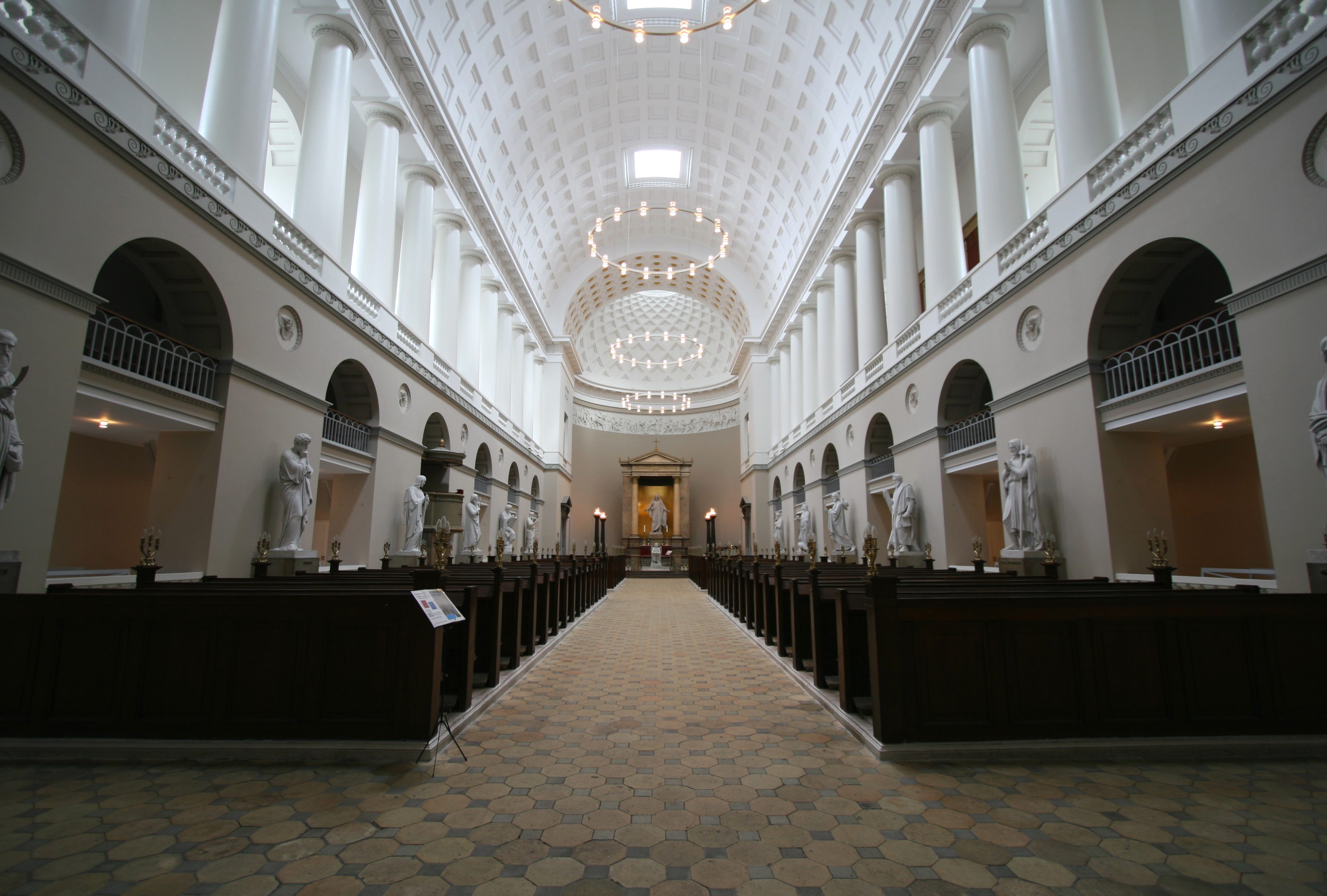 Vor Frue Kirke in Copenhagen, Denmark. The cathedral of Copenhagen. Interior.